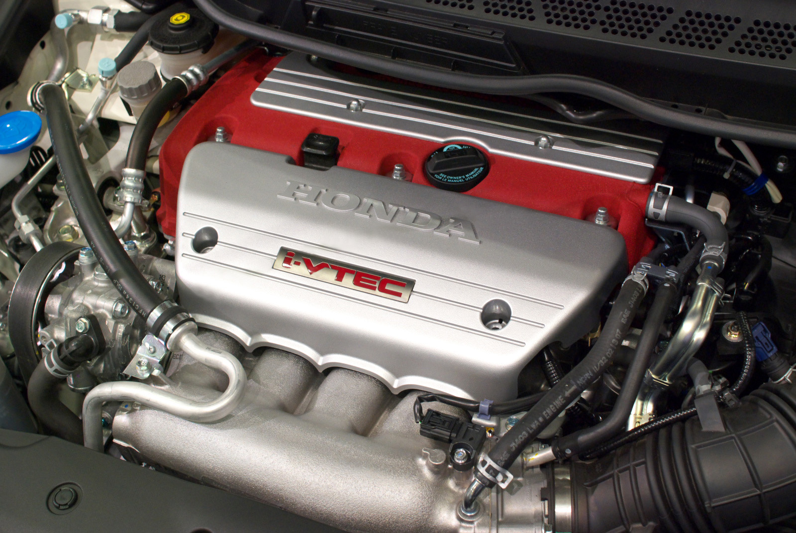 Honda K20A 2.0L Straight-4 DOHC i-VTEC Engine installed in 2007 FD2 Civic TypeR for JDM